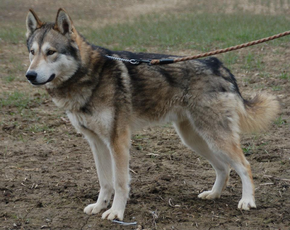 Blustag Snapdragon